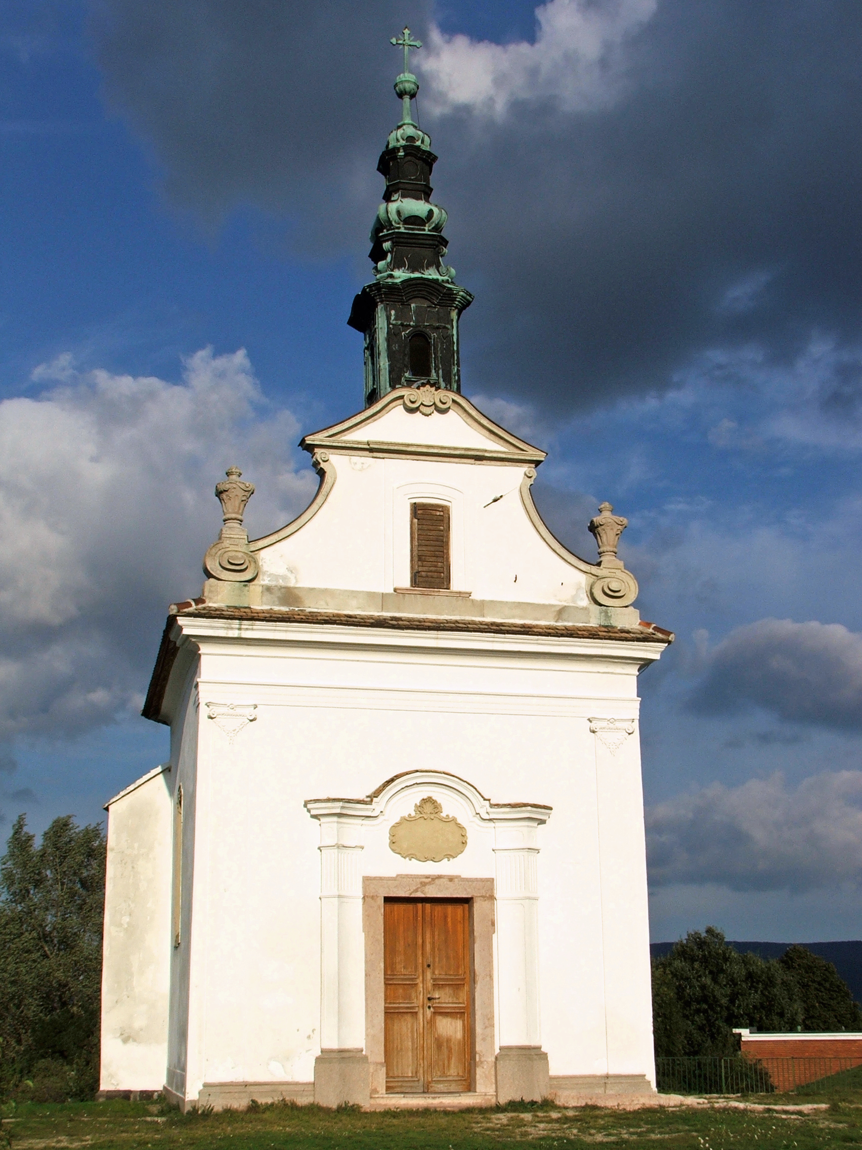 Chapel, Calvary hill Tata